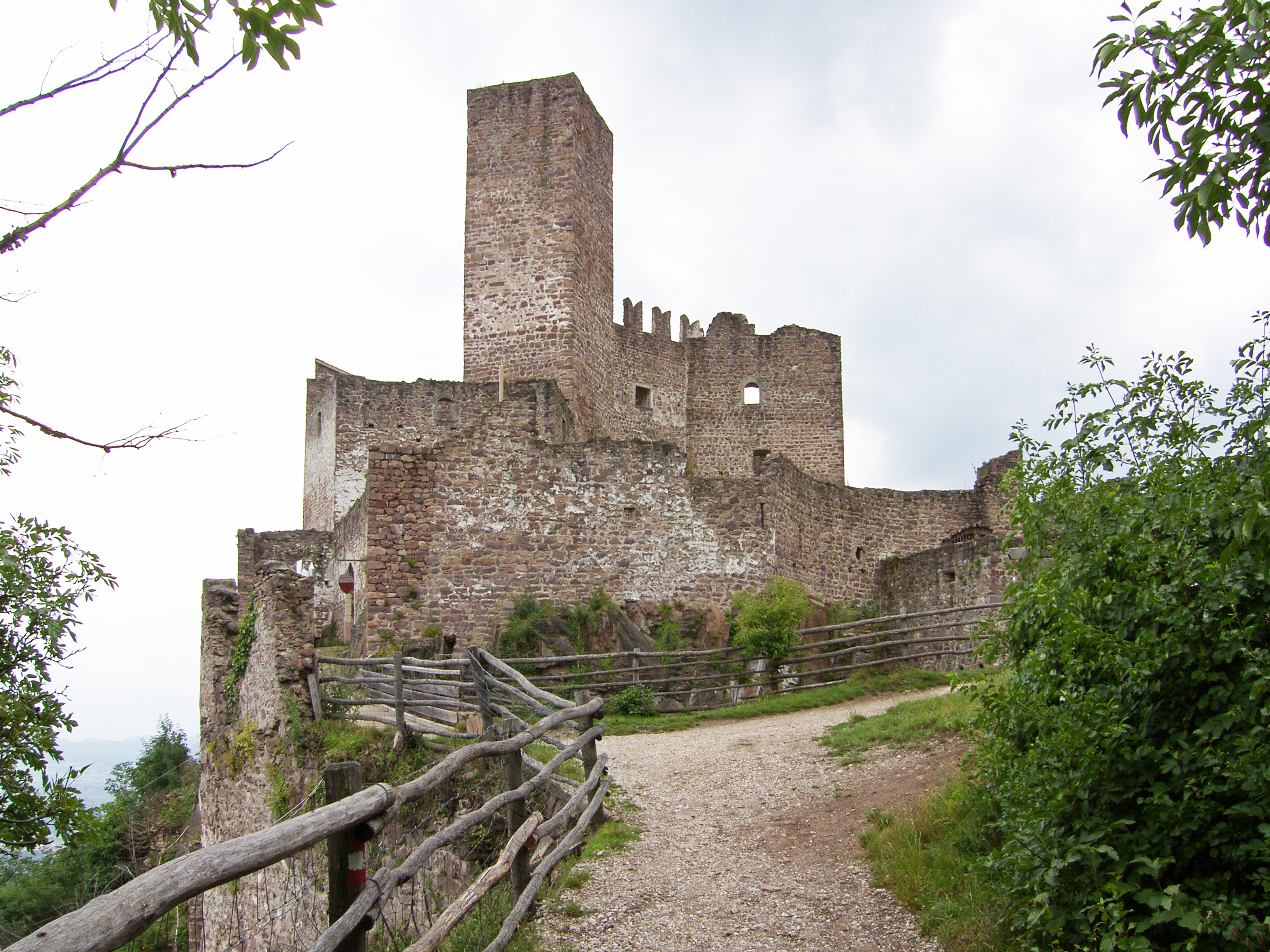 Castle Hocheppan, South Tyrol